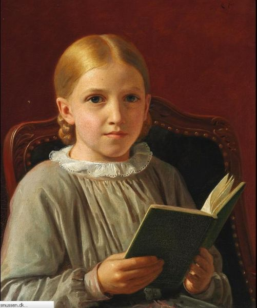 Portrait of the painter's daughter Elise